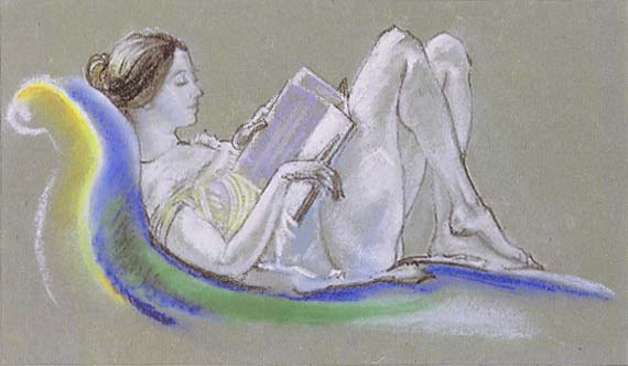 Arthur B. Davies (1862–1928): Reclining Woman (Drawing), 1911, pastel on gray paper, 8 3/8 x 11 1/2.